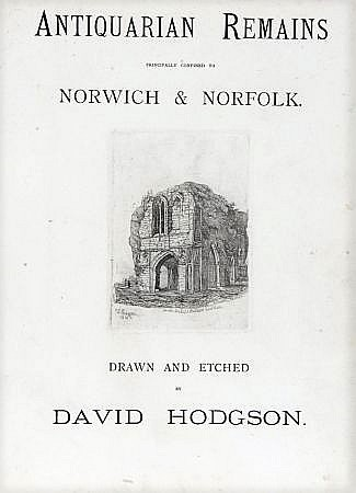 Cover for Hodgson's 'Antiquarian Remains Principally Confined to Norwich & Norfolk'